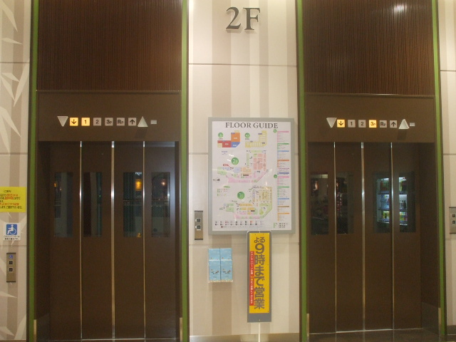 Laspa Mitake Eleveter hall